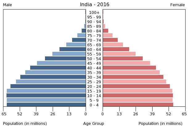 The population pyramid of India illustrates the age and sex structure of population and may provide insights about political and social stability, as well as economic development. The population is distributed along the horizontal axis, with males shown on the left and females on the right. The male and female populations are broken down into 5-year age groups represented as horizontal bars along the vertical axis, with the youngest age groups at the bottom and the oldest at the top. The shape of the population pyramid gradually evolves over time based on fertility, mortality, and international migration trends.